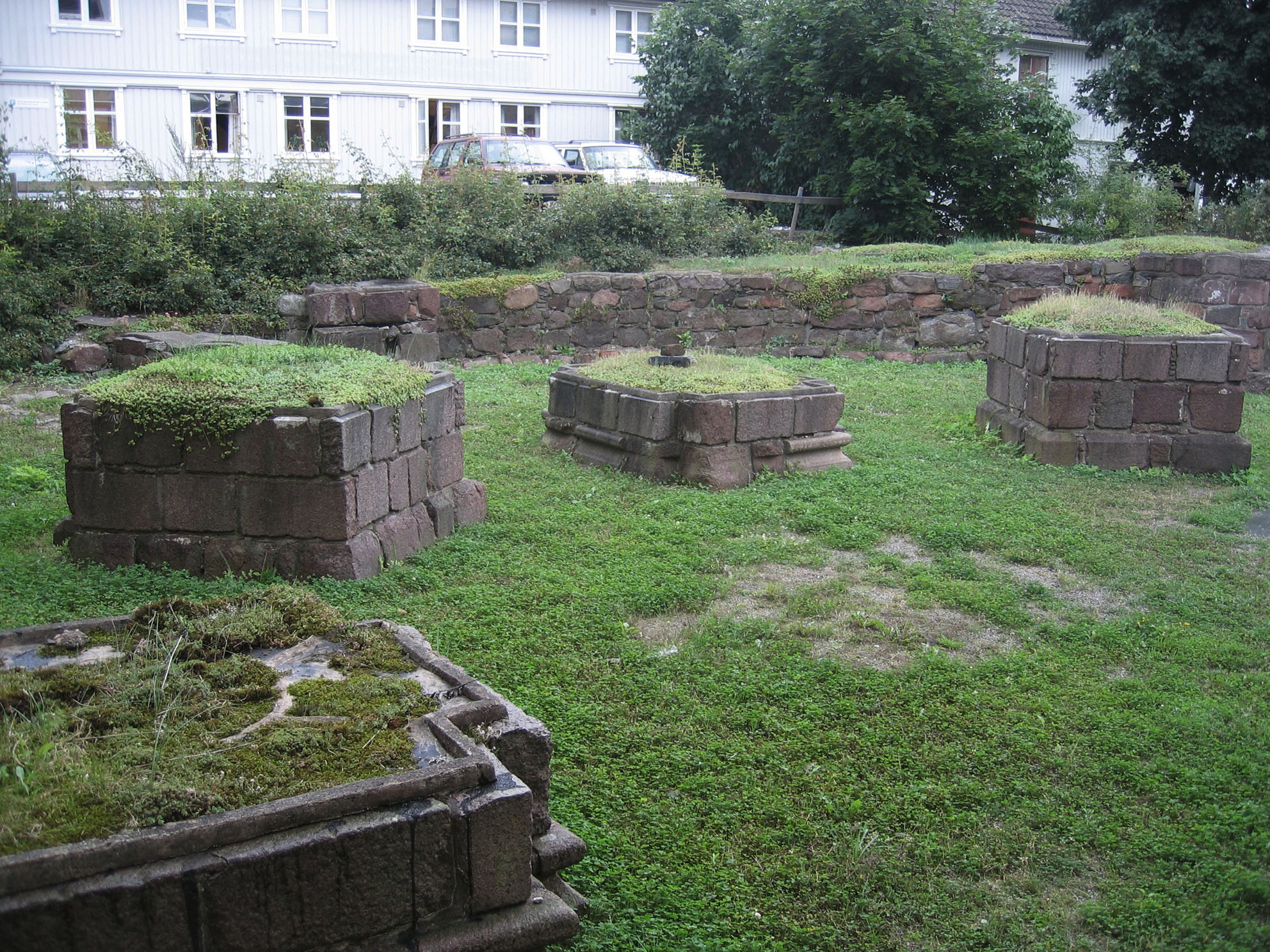 Ruin of a monastry church from the middle age in Tønsberg, Norway